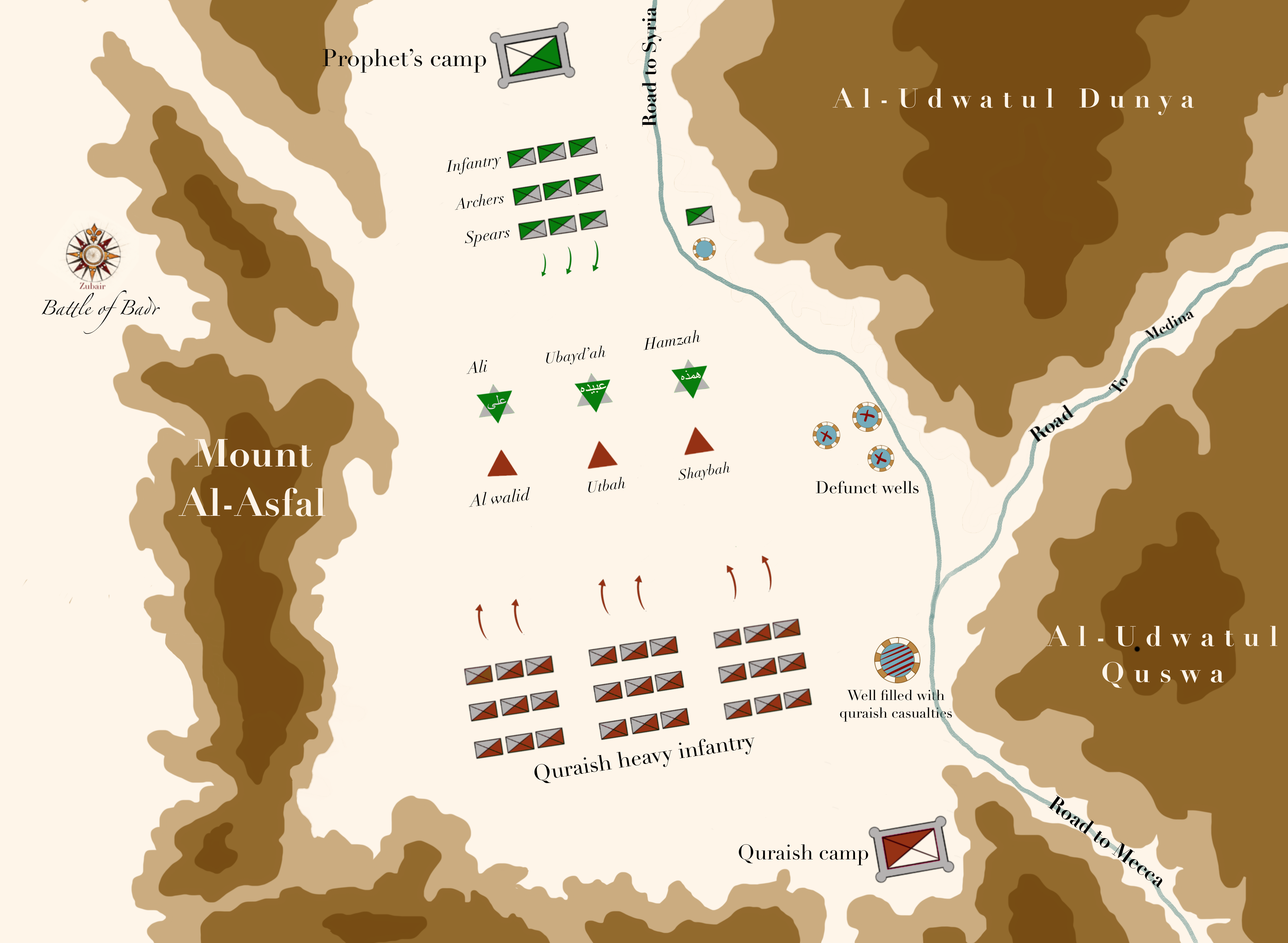 Depiction of battle of Badr,the first and the most important battle in Islamic history.